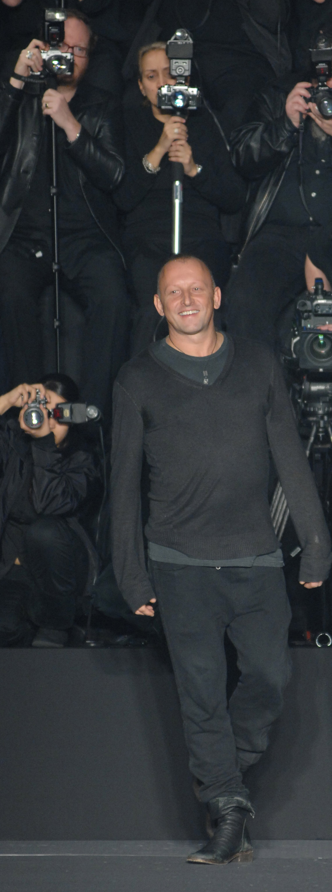 Wilbert Das on the Diesel Black Gold catwalk